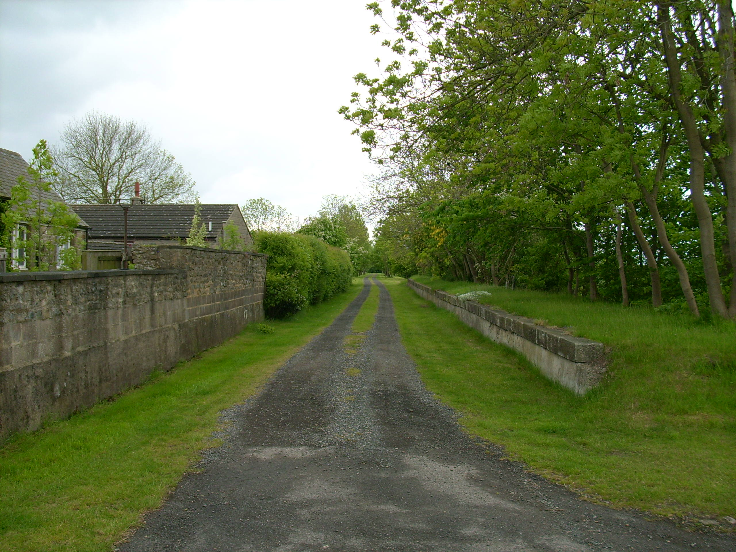 Moulton (North Yorkshire) railway station trackbed and platform, looking towards Scorton.